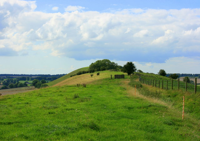 Long view of Long Knoll. Stephen Dawson's picture of Long Knoll in 7861 was taken at the beginning of April, this was taken toward the end of August and shows the change of seasons. Long Knoll is an SSSI, details here